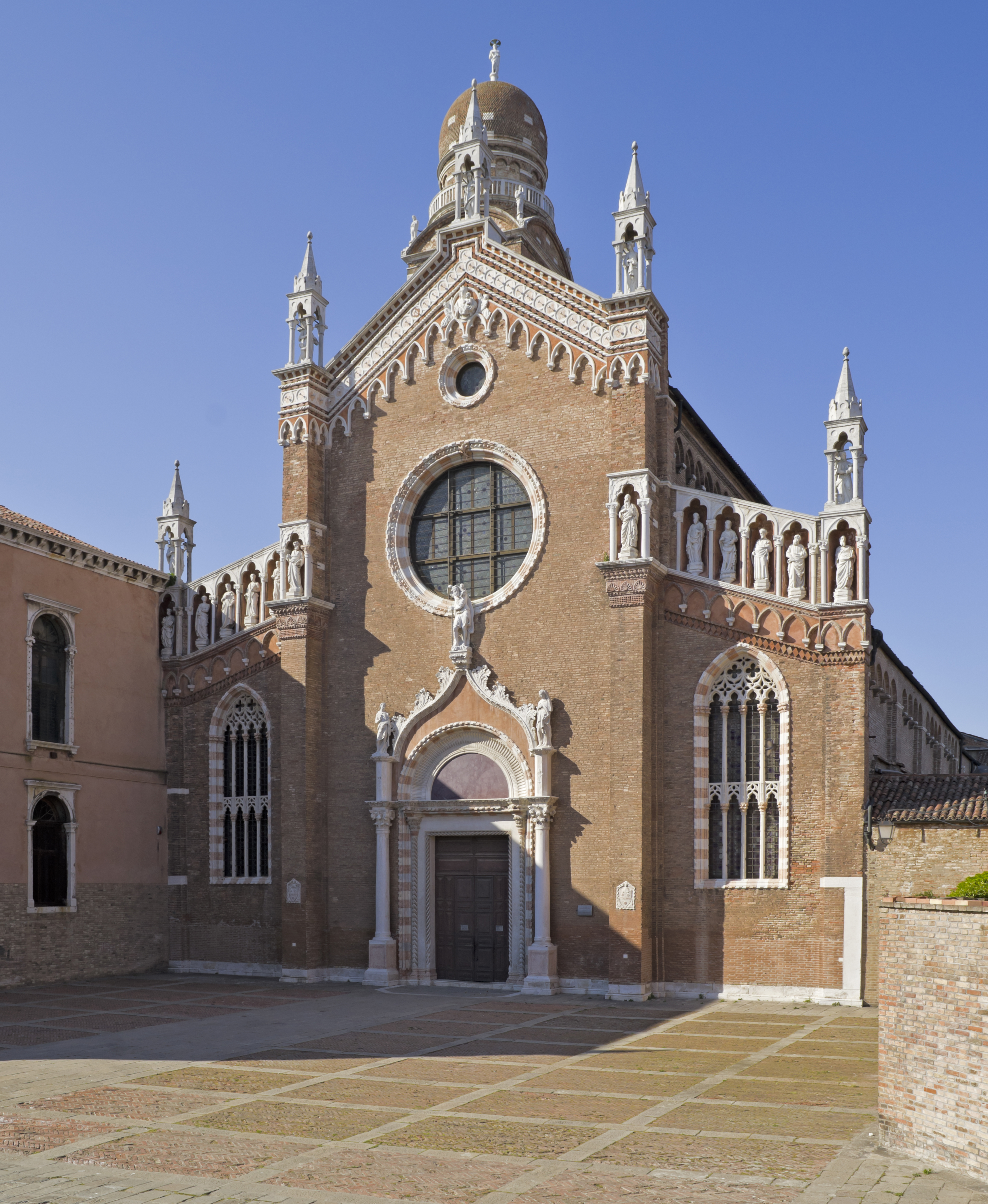 Madonna dell'Orto, Venice facade.